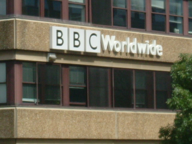 BBC Worldwide - Wood Lane, W12 BBC Worldwide in Wood Lane, not to be confused with the Television Centre or White City.